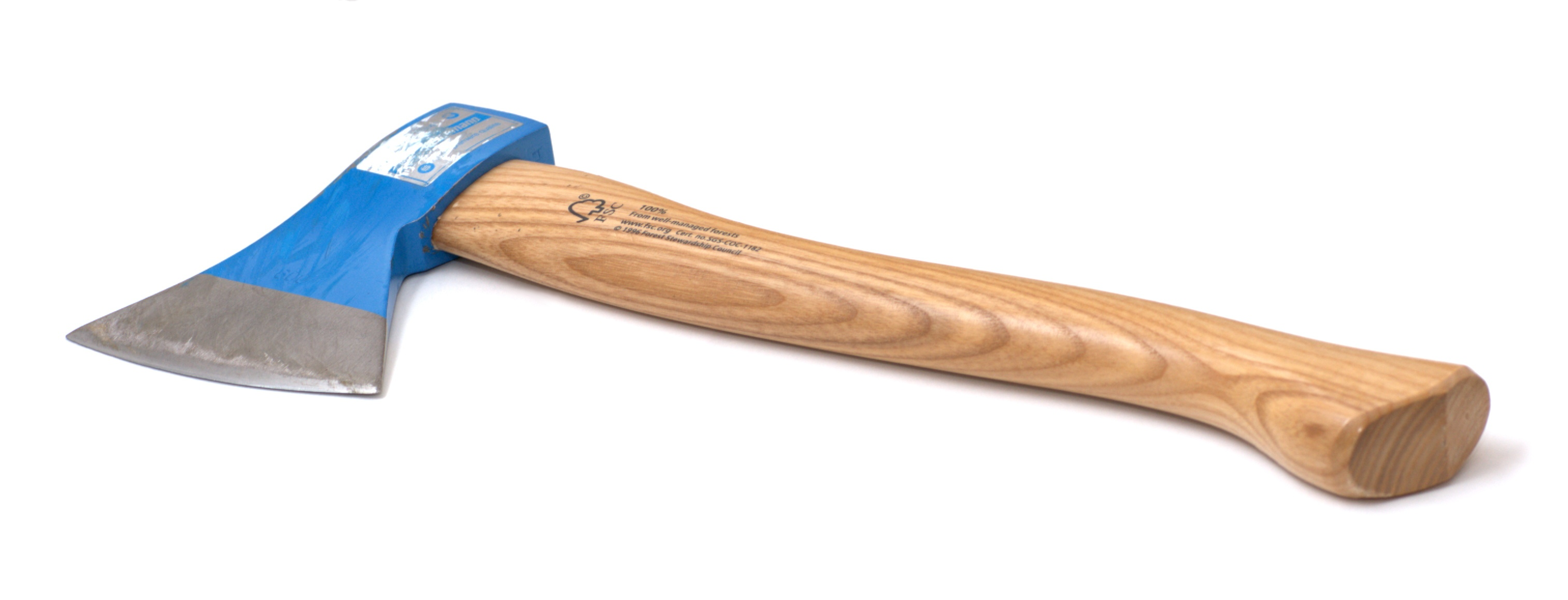 Kitchen hatchet, sharpened for wood working (bowsmith use)